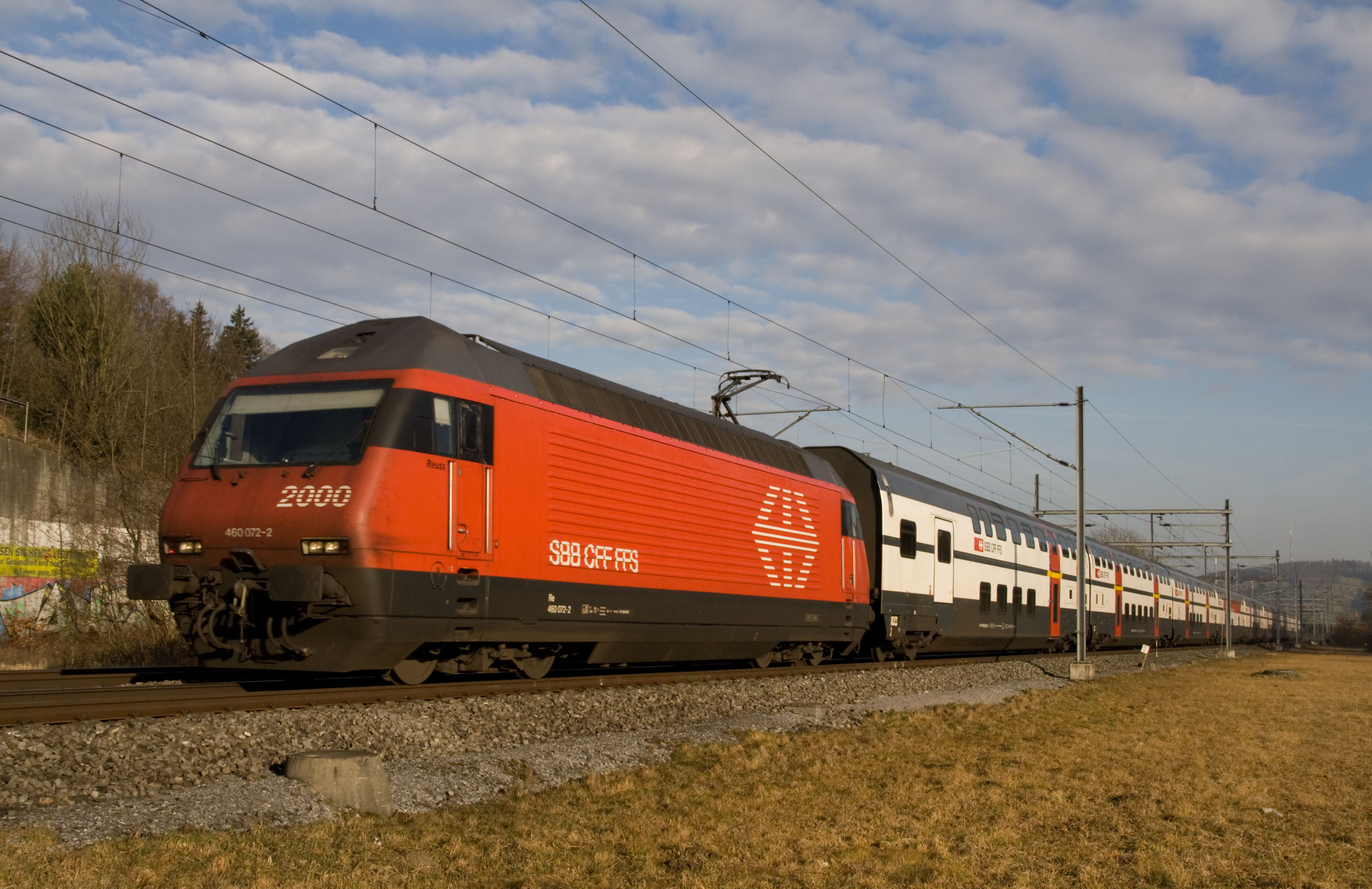 Re 460 locomotive with an IC2000 train has just left Winterthur and is heading towards Zurich